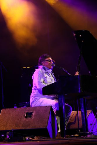 José Cid Alive